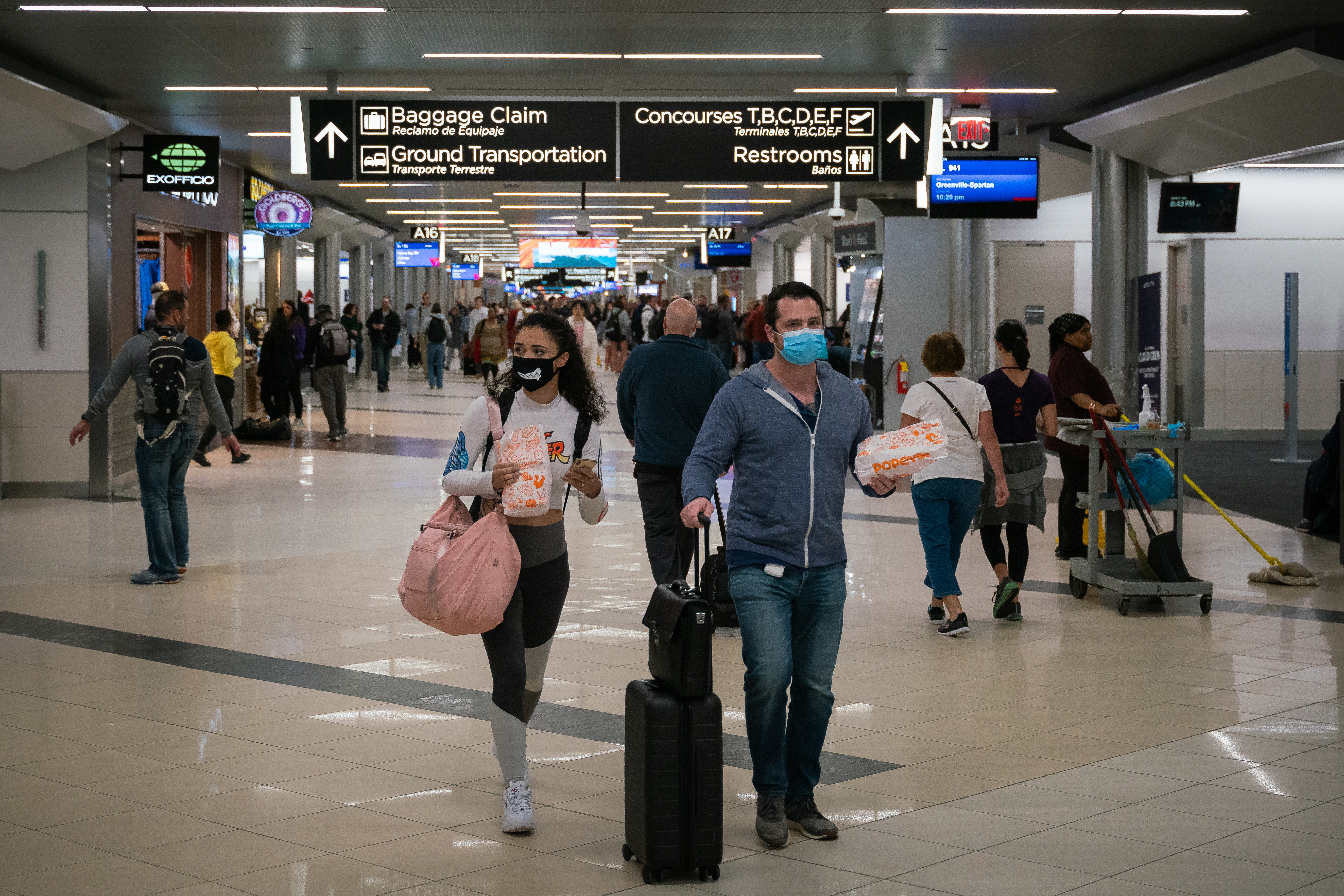 Flyers at Hartsfield-Jackson Atlanta International Airport wearing facemasks on March 6th, 2020 as the COVID-19 coronavirus spreads throughout the United States.